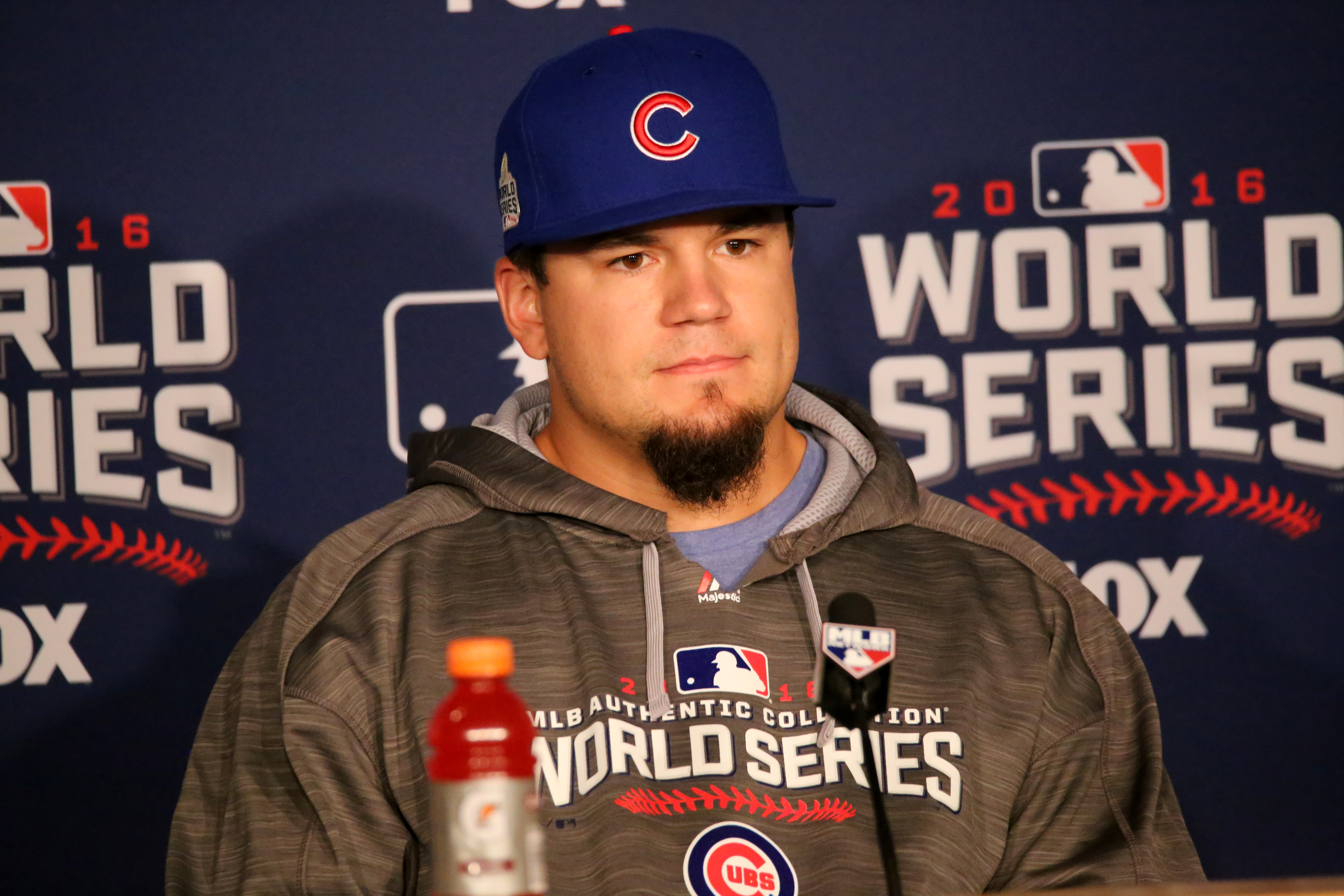 Cubs slugger Kyle Schwarber meets the media before #WorldSeries Game 1.